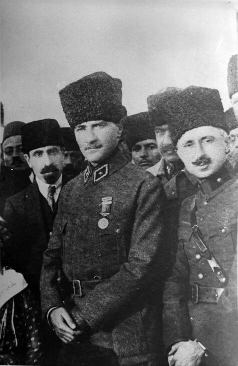 Mustafa Kemal (Atatürk) and Refet (Bele) in 1923.